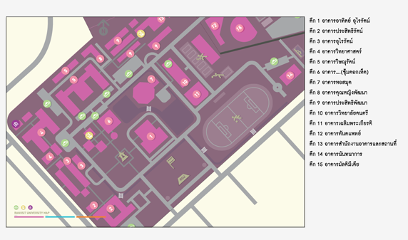 The Master Plan of Rangsit University